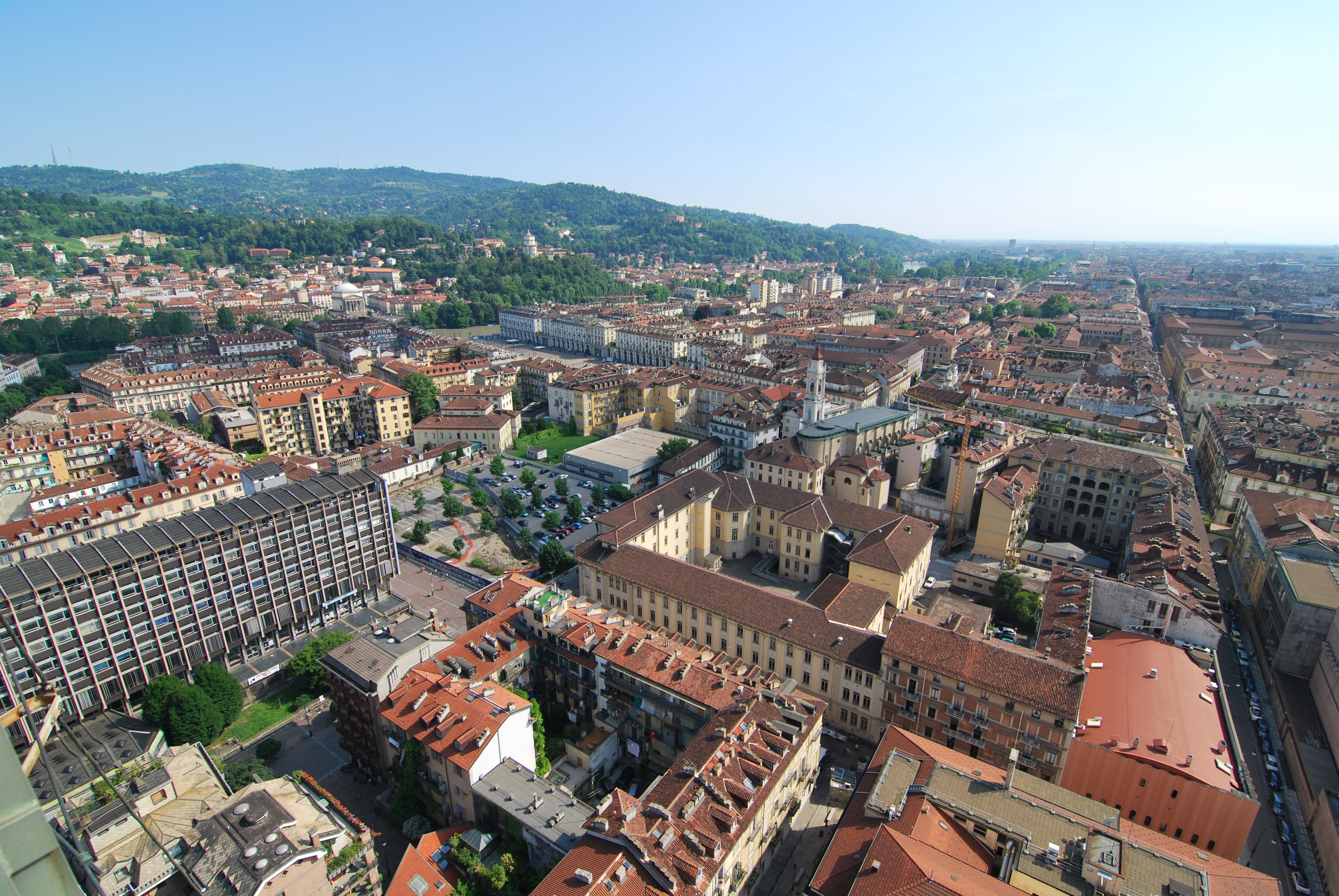 view of Turin from the Mole